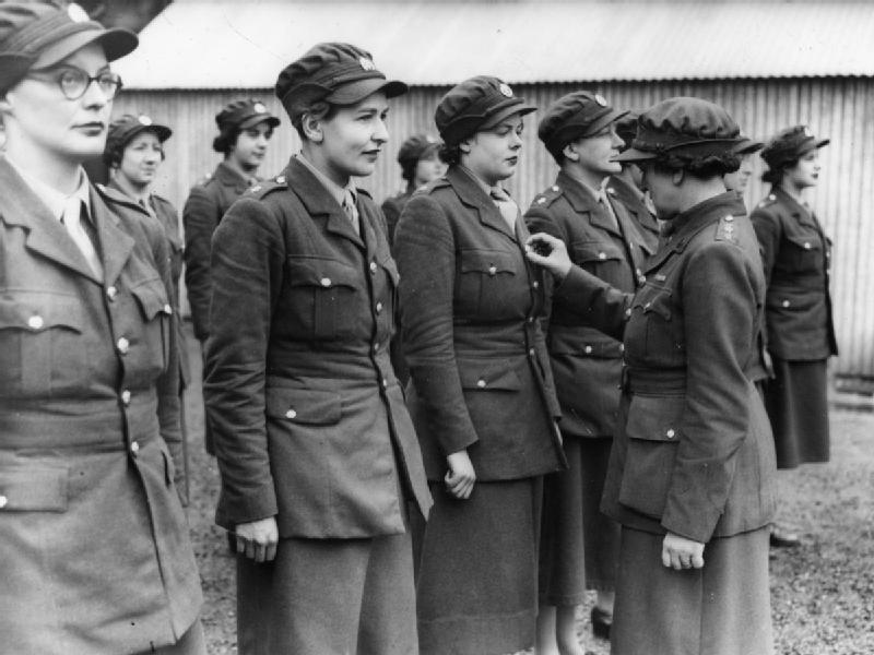 Auxiliary Territorial Service, 1940 Inspection of members of the 1st Cornwall Company, Auxiliary Territorial Service, of by Company Commander, Mrs Blair, on 1 March 1940.